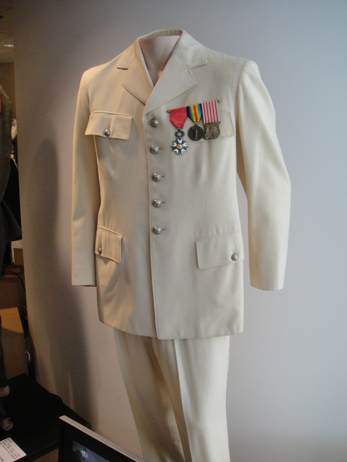 Claude Rains "Captain Louis Renault" ivory military suit from "Casablanca" at the Debbie Reynolds Auction Breaks Up Historic Hollywood Collection (The Paley Center for Media in Beverly Hills, Los Angeles, CA, USA).